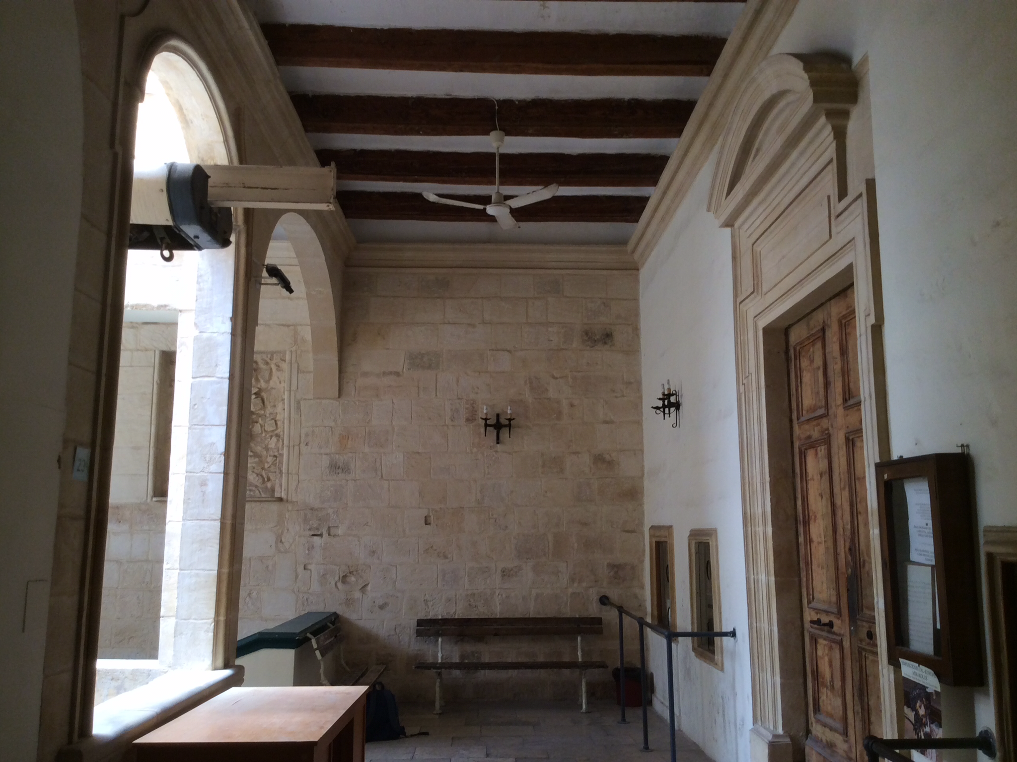 Monte di Pieta interior